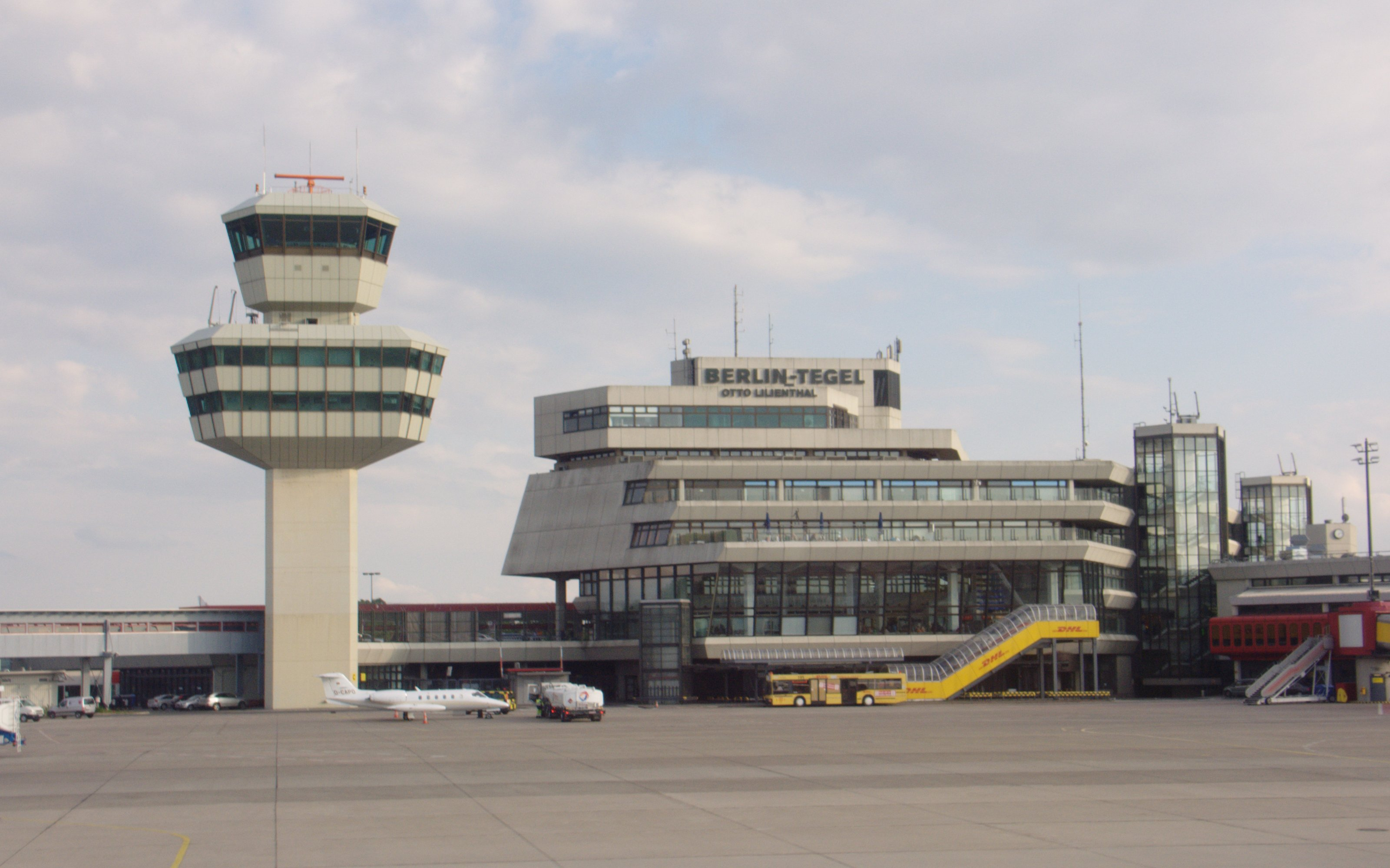 tower and main concourse of Berlin-Tegel International Airport (TXL), taken from an airplane on the airfield heading south